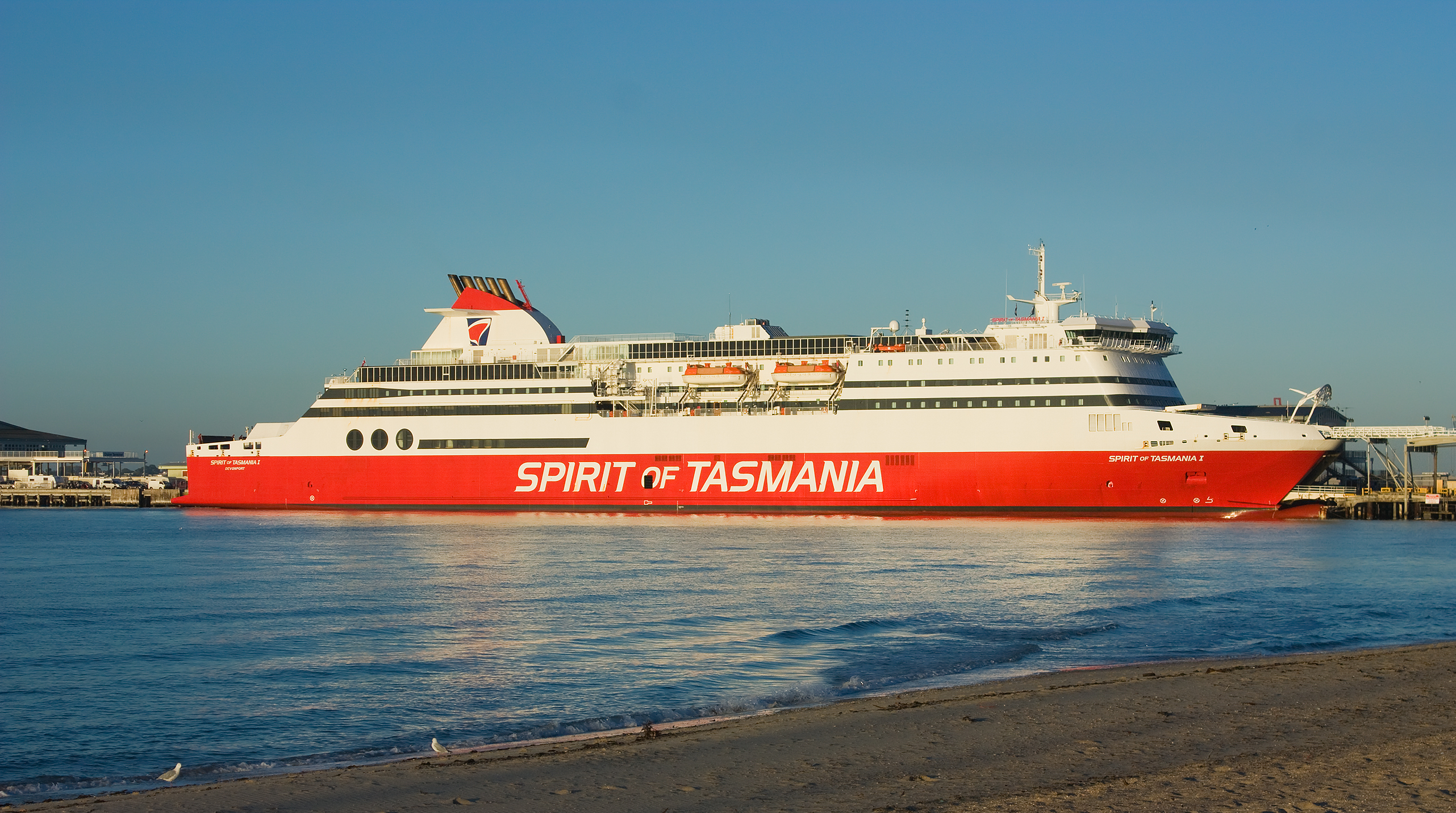 The Spirit of Tasmania at Port Melbourne, Melbourne, Victoria, Australia